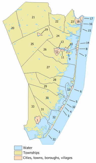 Map of Ocean County, New Jersey Municipalities. See below for legend. Data Lineage: See lineage of index maps. Original work of Jim Irwin, December 2005